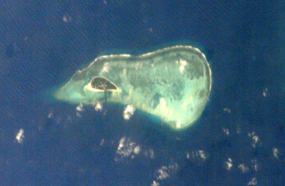 Money Island, Paracel Islands. Photo number: ISS004-E-7150. Image courtesy of the Image Science & Analysis Laboratory, NASA Johnson Space Center